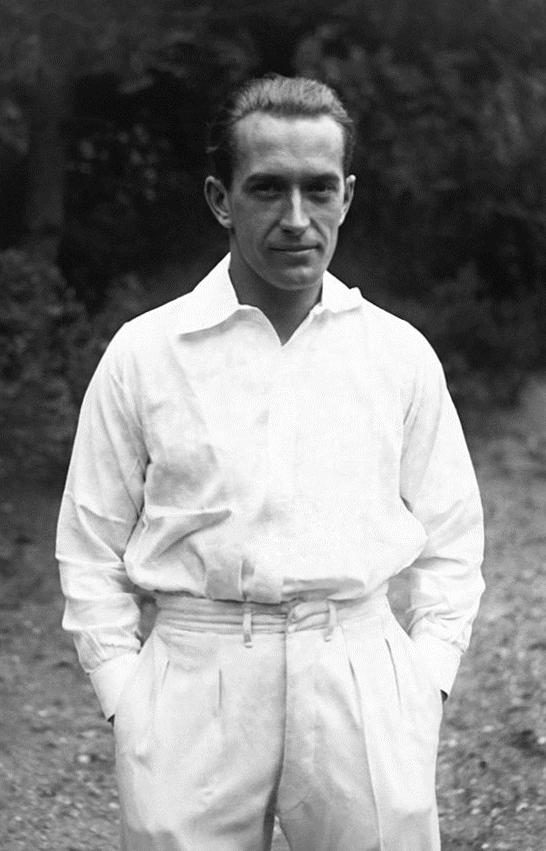 Portrait of French tennis player Henri Cochet in France in July 1929.